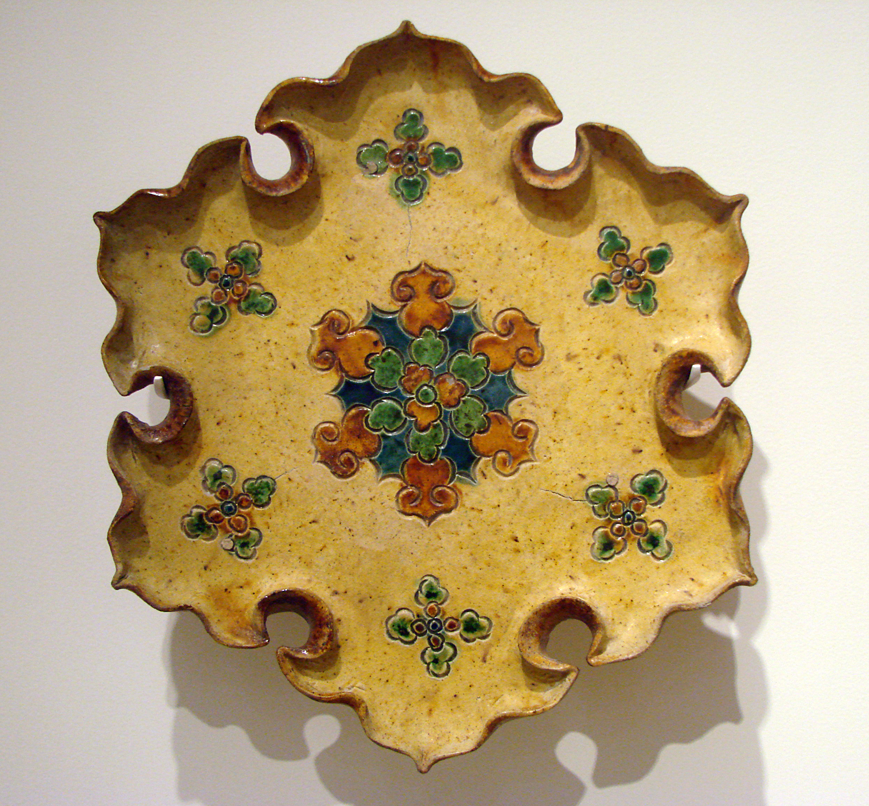 Plate offering, North China, 8th century. Glazed stoneware "three colors" on engobe, incised decoration. Musée Guimet, Paris. MA 4065